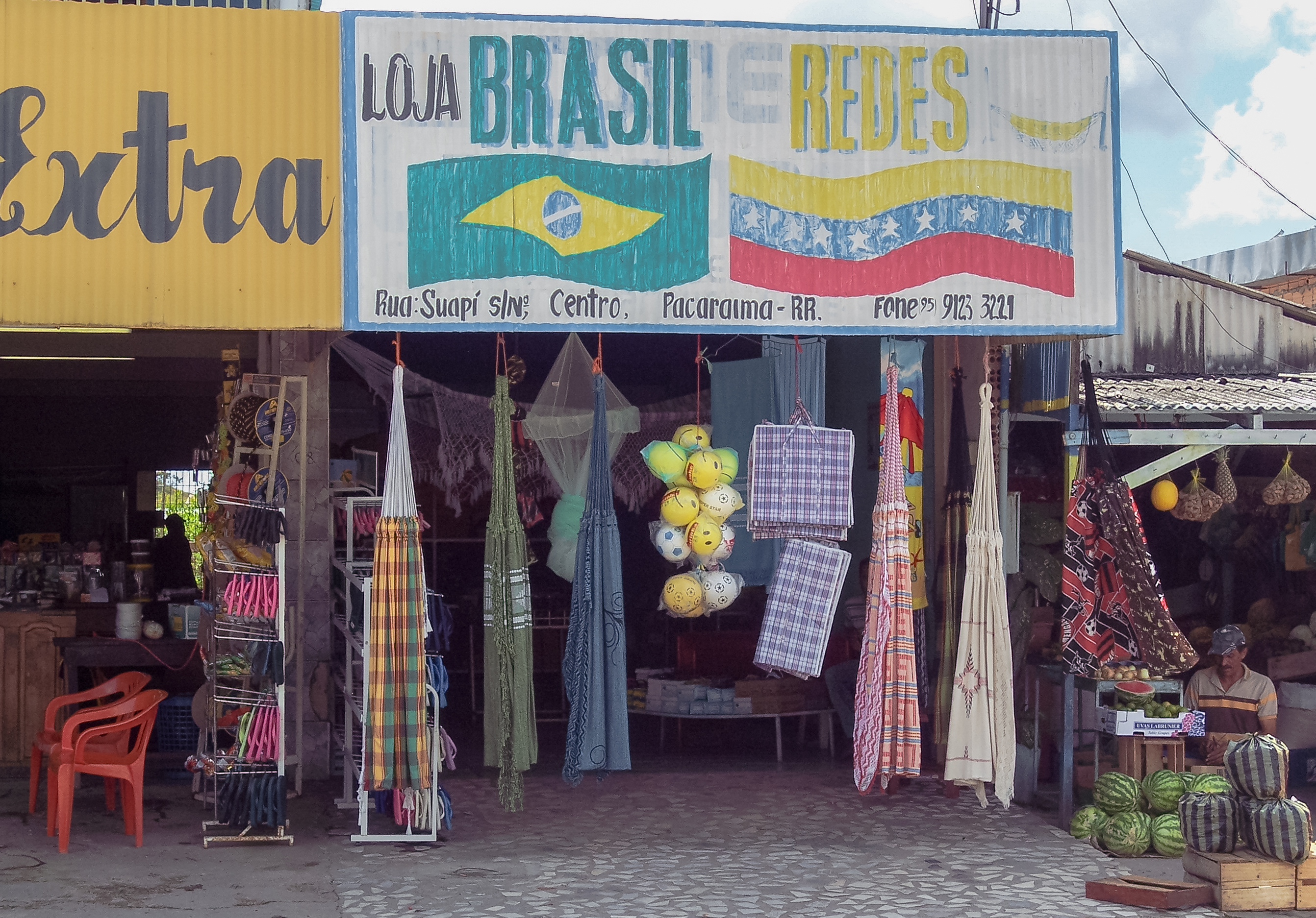 Shop in Pacaraima, Brazil